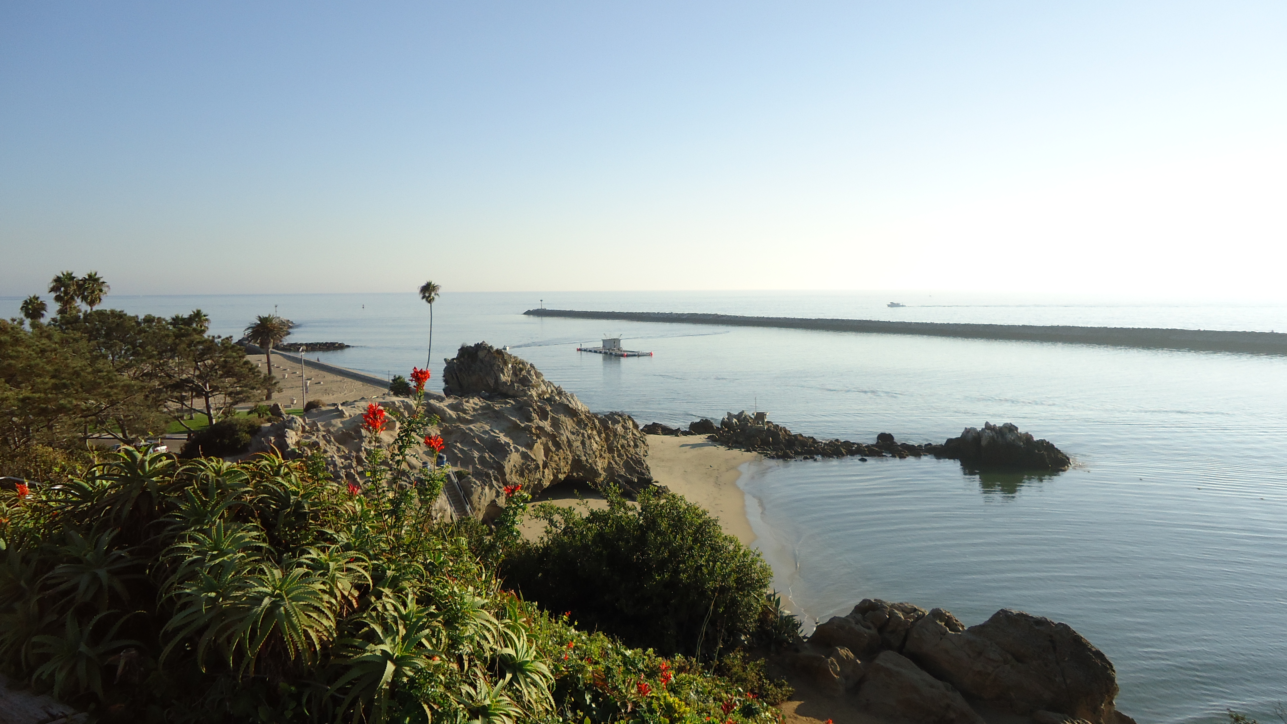 Lookout Point. The entrance to Newport Beach Harbor (Newport Beach, California).